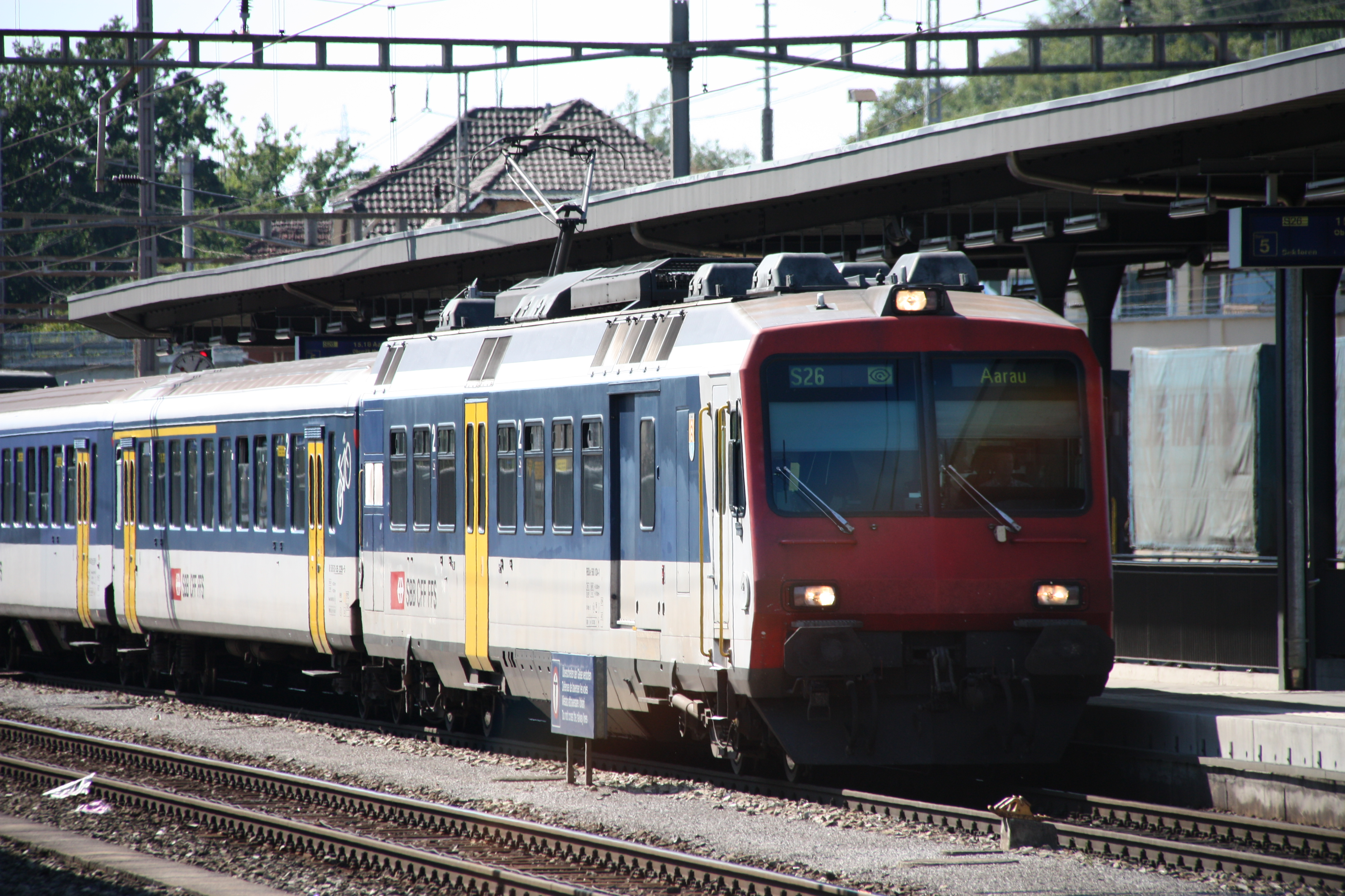 Rotkreuz train stationRBDe 560 (NPZ)S26 7357 arrives from Othmarsingen (see headlights) and will depart as S26 7060 to Aarau (see Departure)